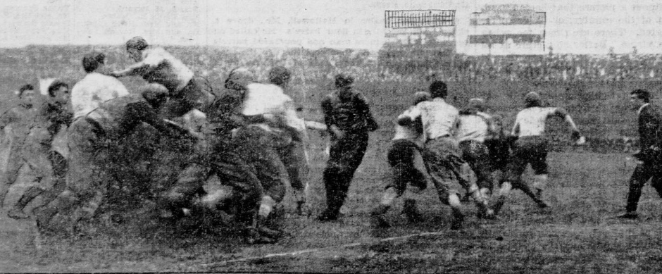 Columbia University halfback Harold Weekes dives for a touchdown during the first half of Columbia's game against Yale in 1900